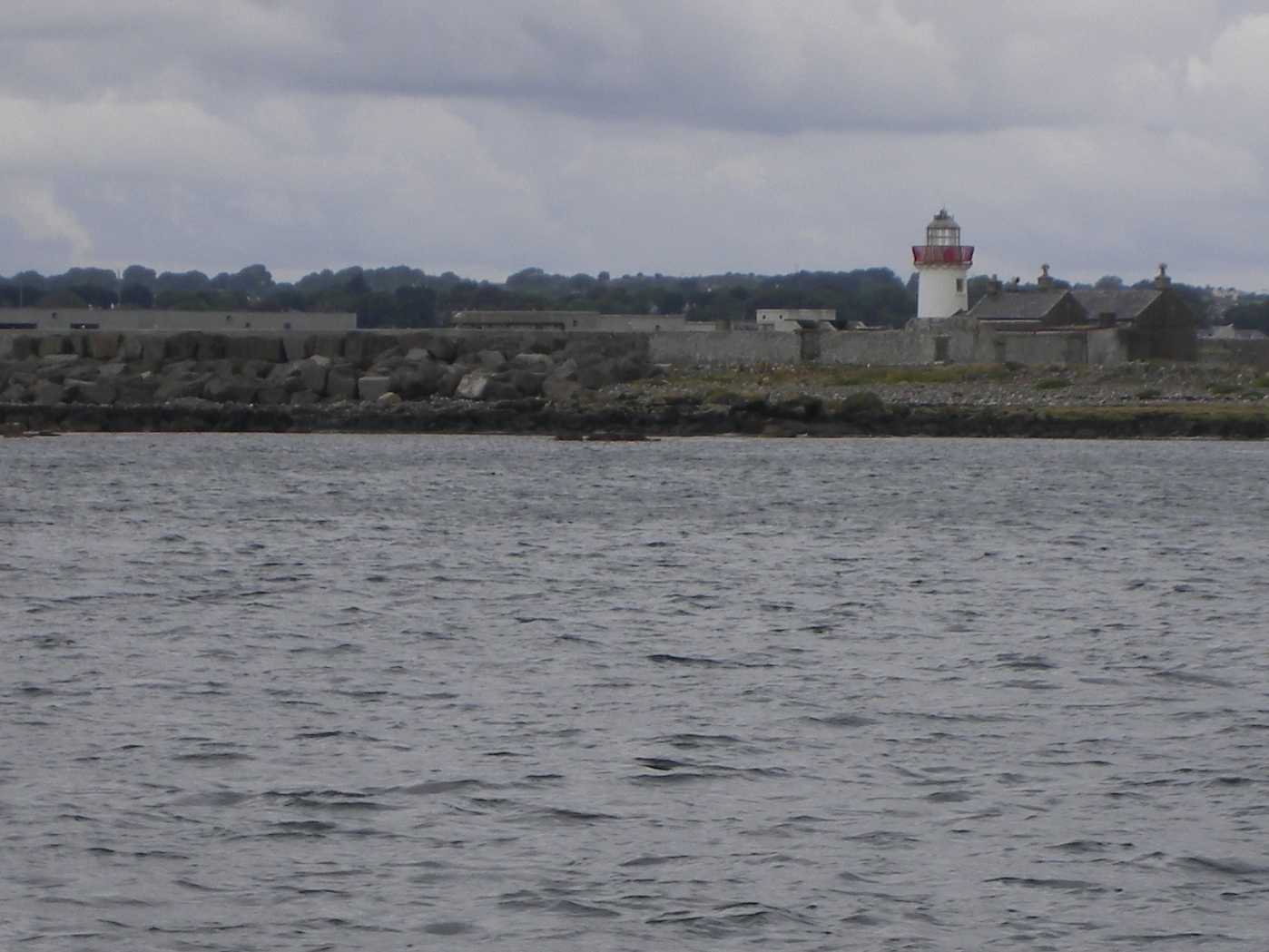 Galway, Mutton island lighthouse